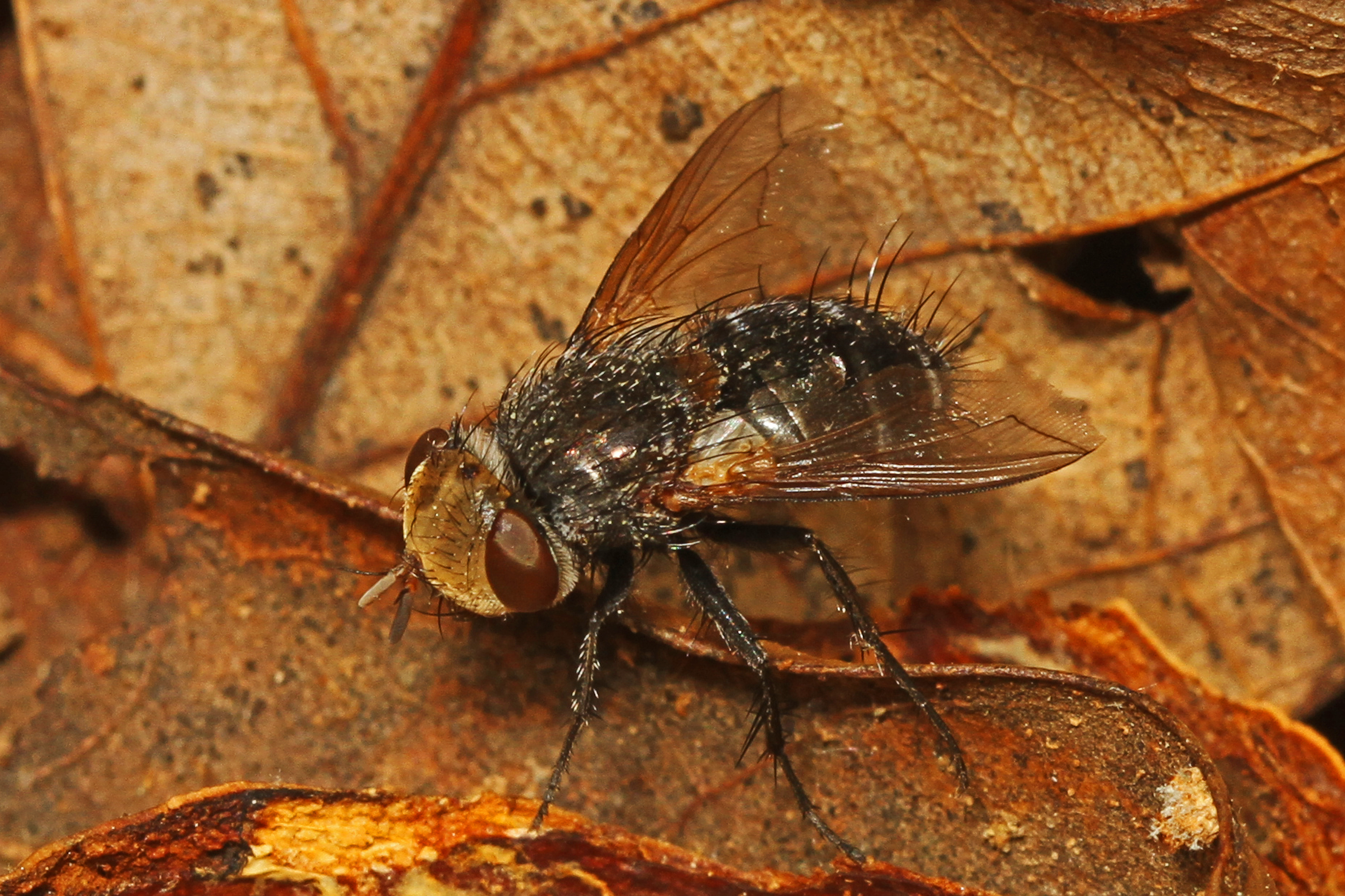 Tachinid - Gonia species, Meadowood Farm SRMA, Mason Neck, Virginia.